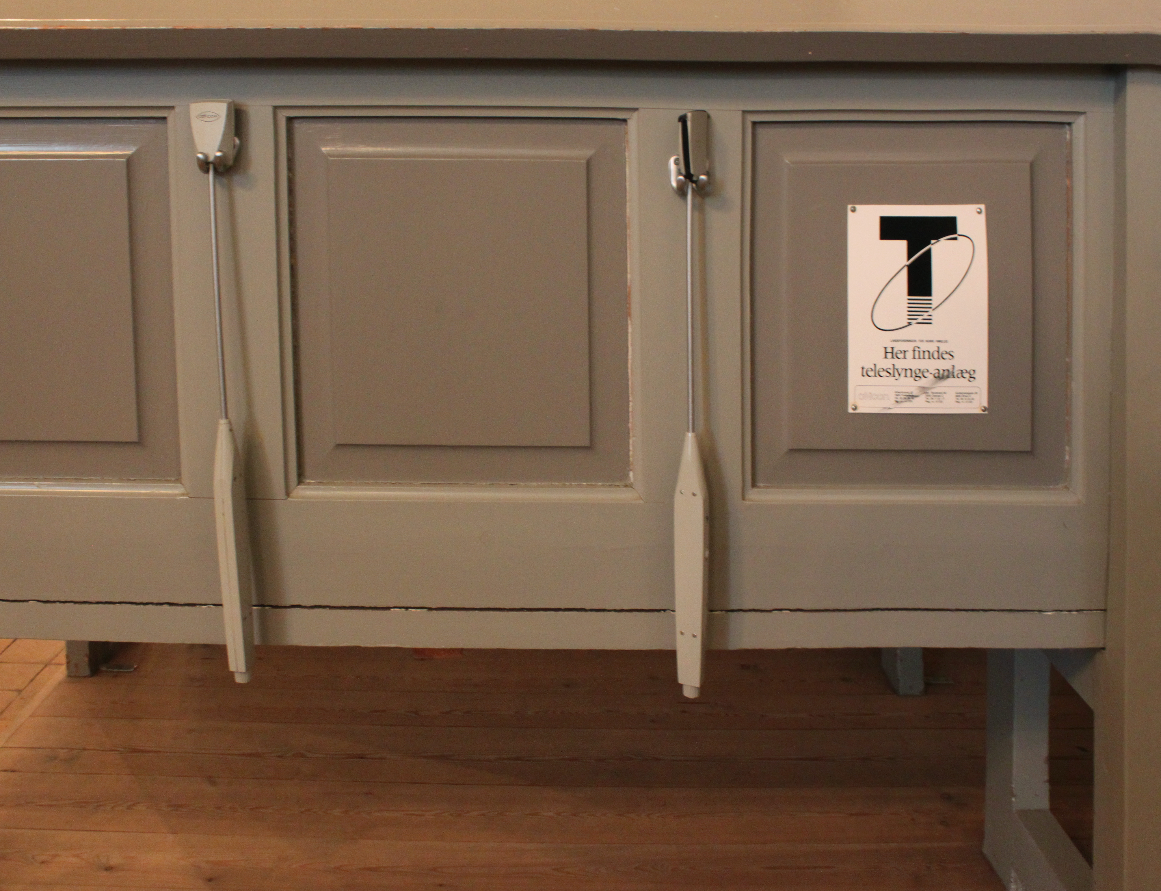 Endelave Church, church benches and Telecoil. Endelave Parish, Horsens Deanery, Århus Diocese. Nim Herred, Skanderborg County.